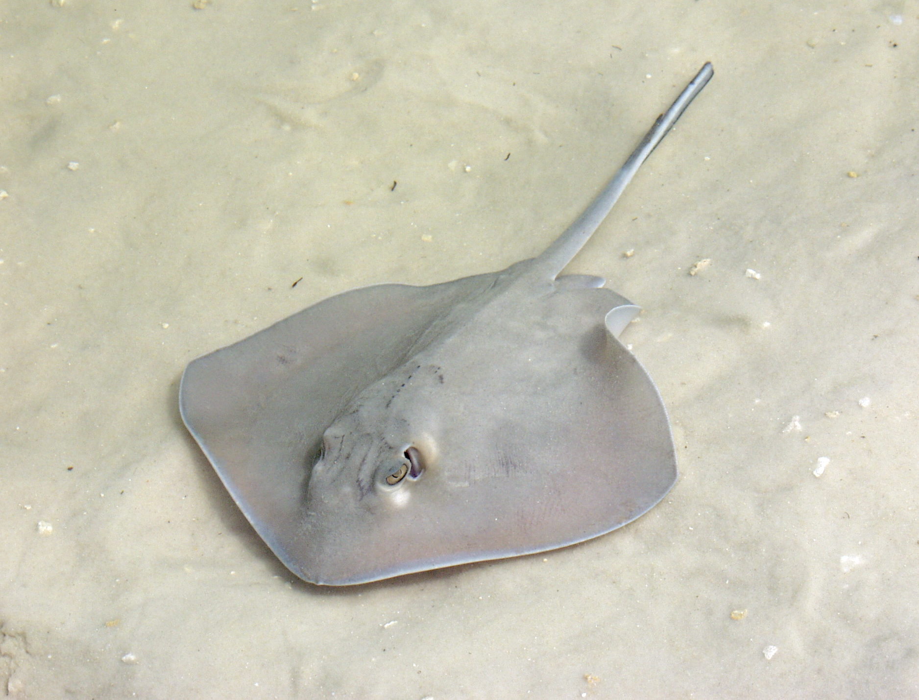 A modern Deania sp.